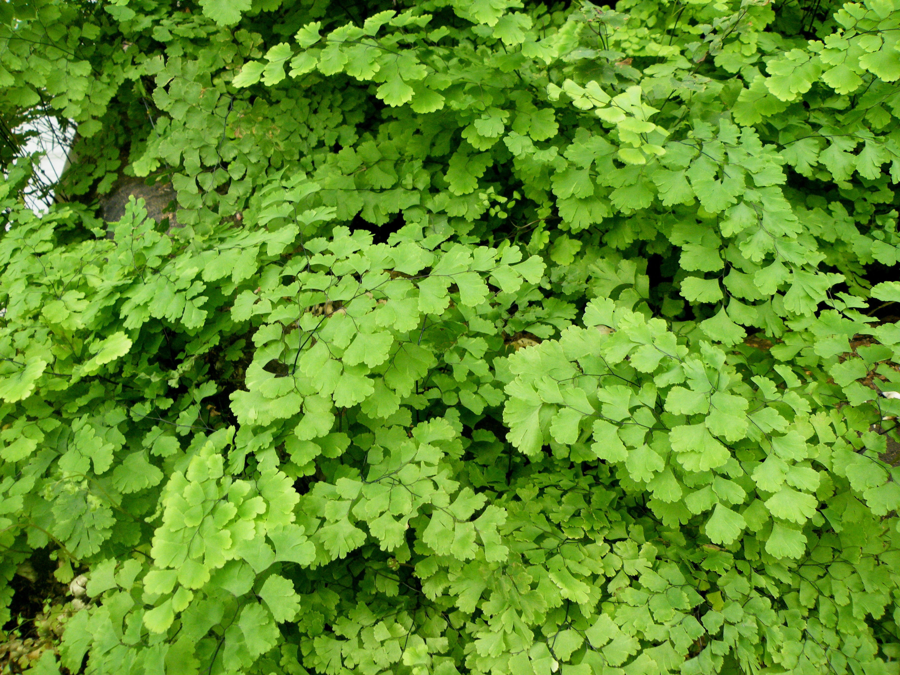 Adiantum capillus-veneris grows from 6 to 12 in (15 to 30 cm) in height; its fronds arising in clusters from creeping rhizomes 8 to 27.5 in (20 to 70 cm) tall, with very delicate, light green fronds much subdivided into pinnae 0.2 to 0.4 in (5 to 10 mm) long and broad; the frond rachis is black and wiry. This media file is produced by Wikipedian in Residence in Botanical Garden Jevremovac in 2015.